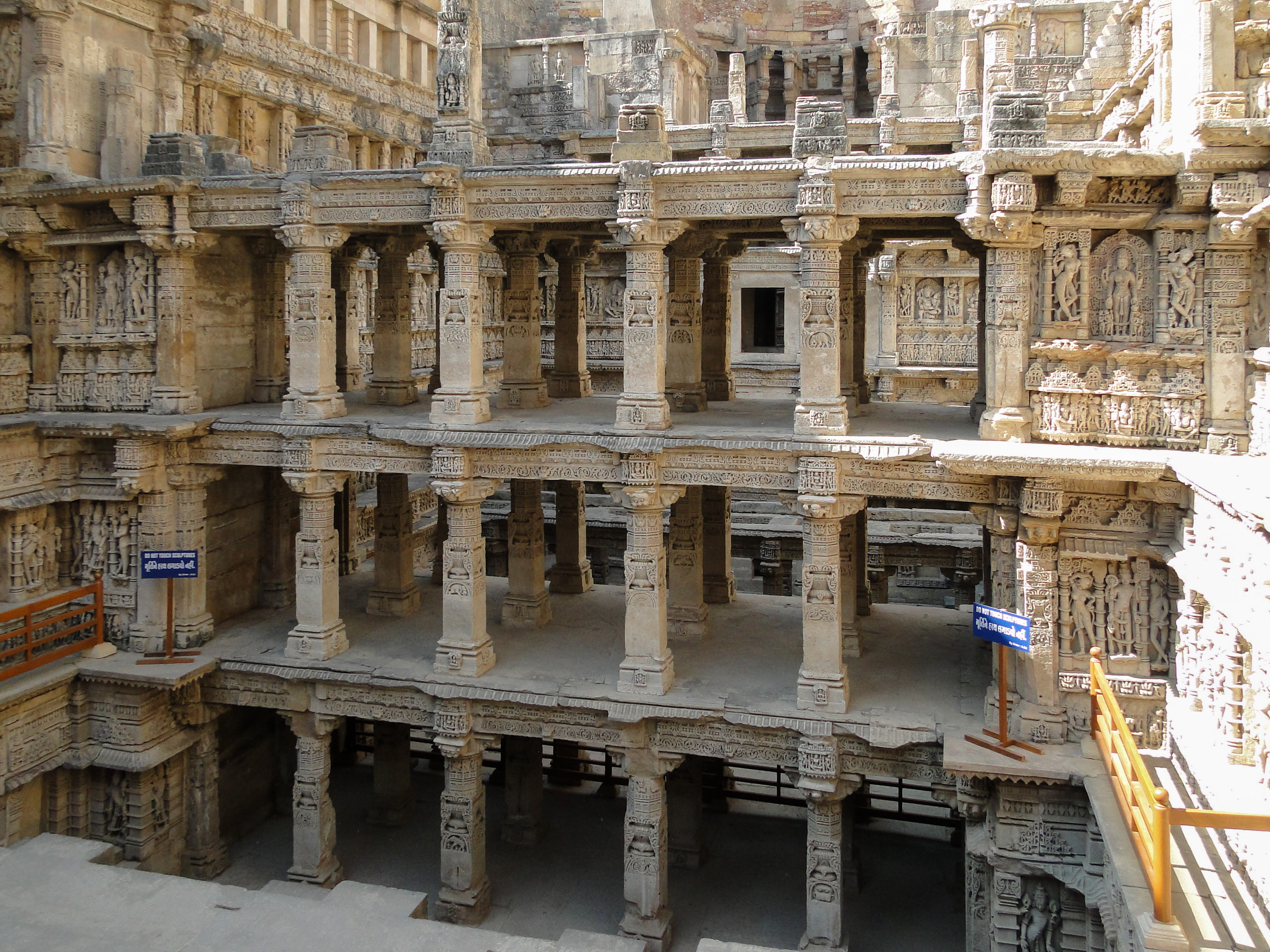 Rani ki vav, Patan, India